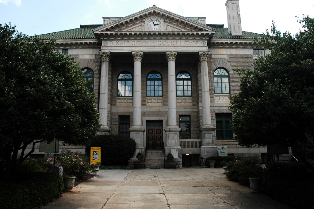 Historic Decatur, GA Courthouse, now DeKalb County History Museum and event space.